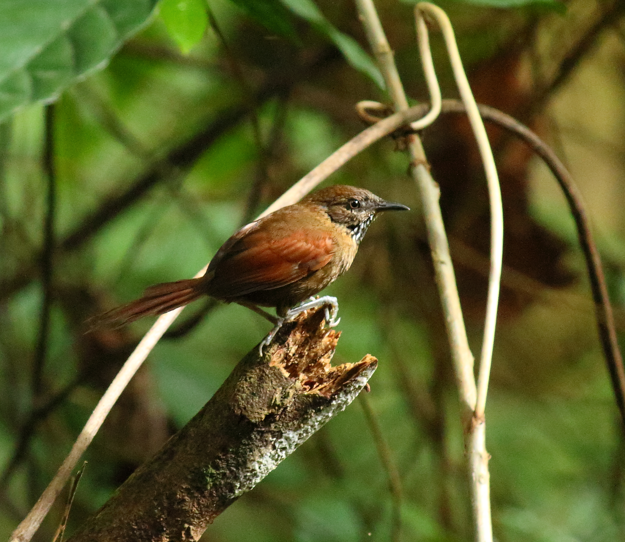 Stripe-breasted spinetail Gomez-Aripo